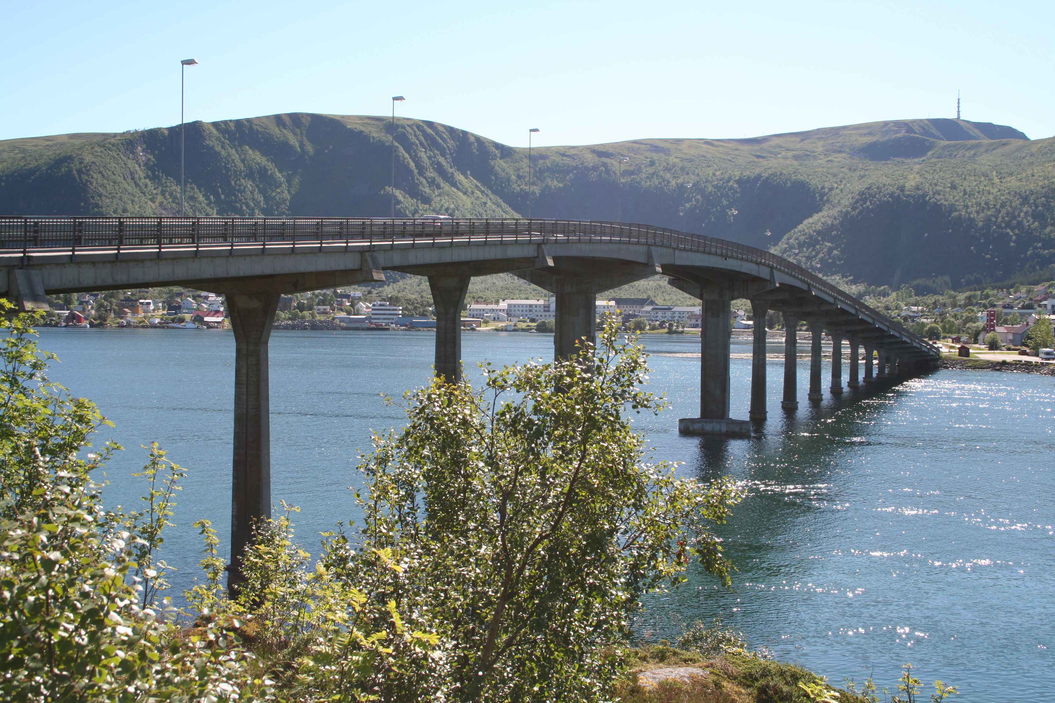 Børøy Bridge, Norway. This picture was taken by me on 27 July 2006.